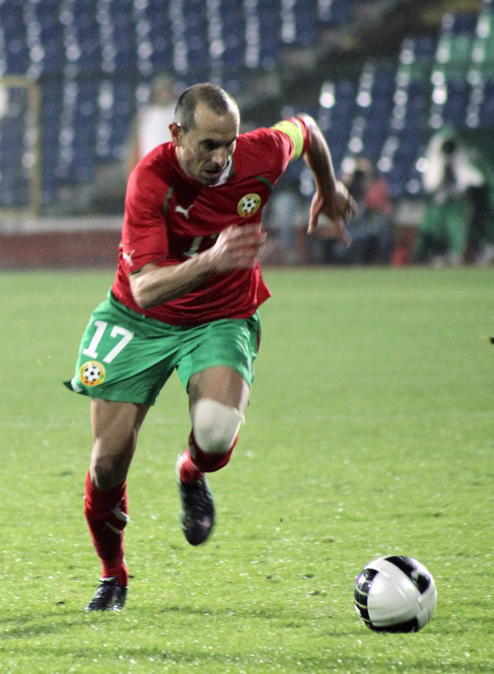 Martin Petrov - bulgarian soccer player